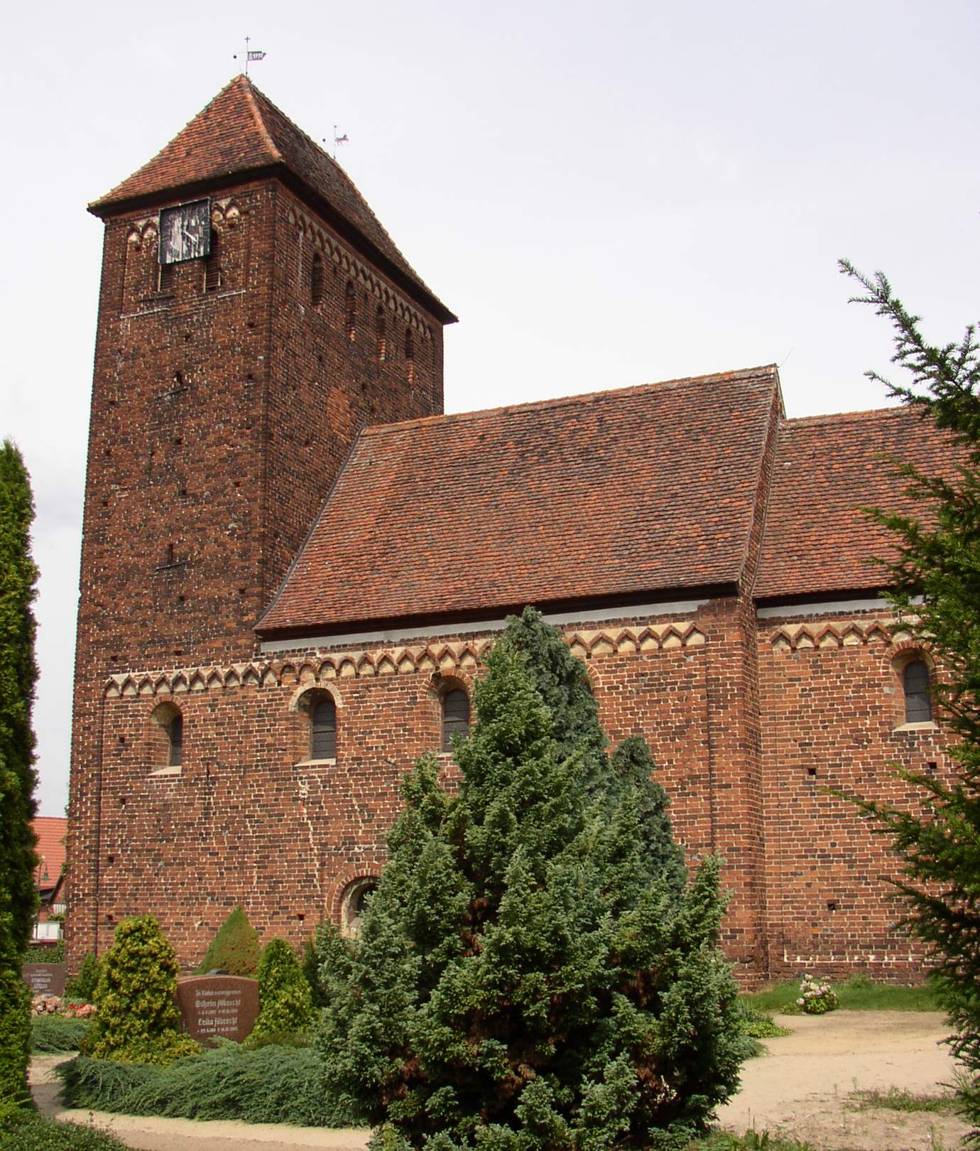 Church in Wust-Melkow in Saxony-Anhalt, Germany